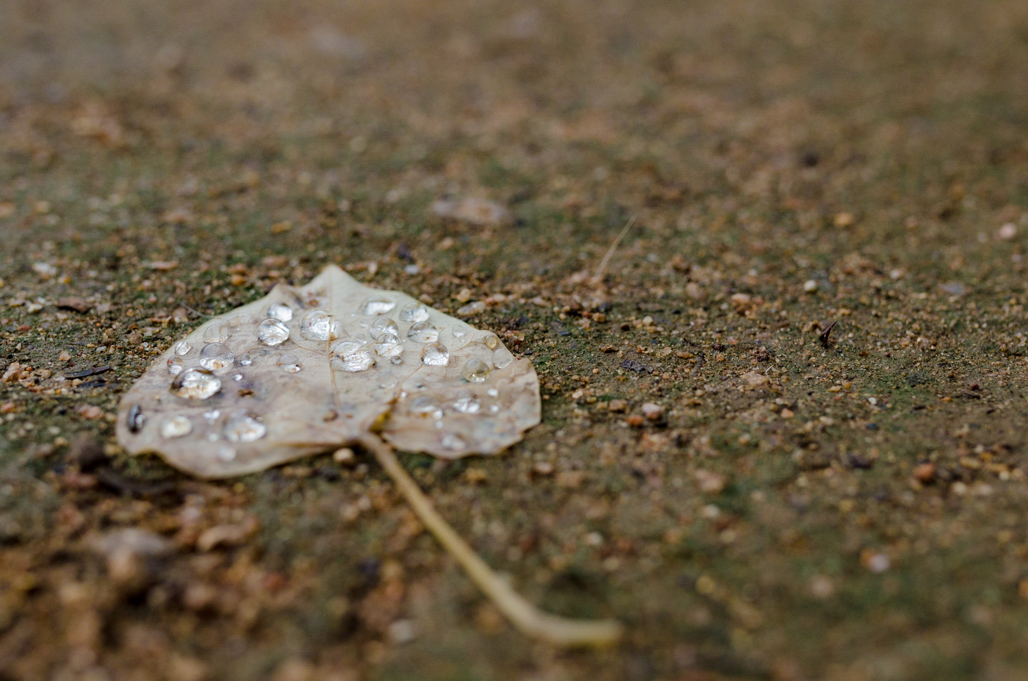 after a shower